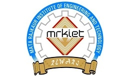 MRKIET logo